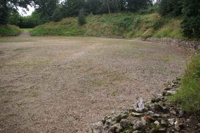 Roman amphitheatre, Calleva Atrebatum A view back towards the entrance of this Roman amphitheatre built in about 50AD.